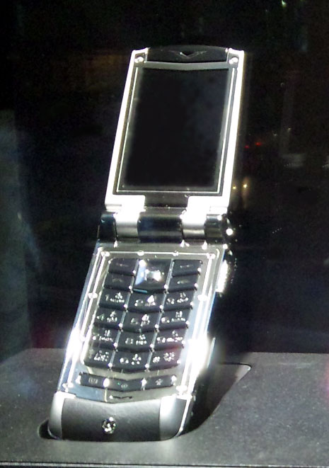 VERTU Constellation